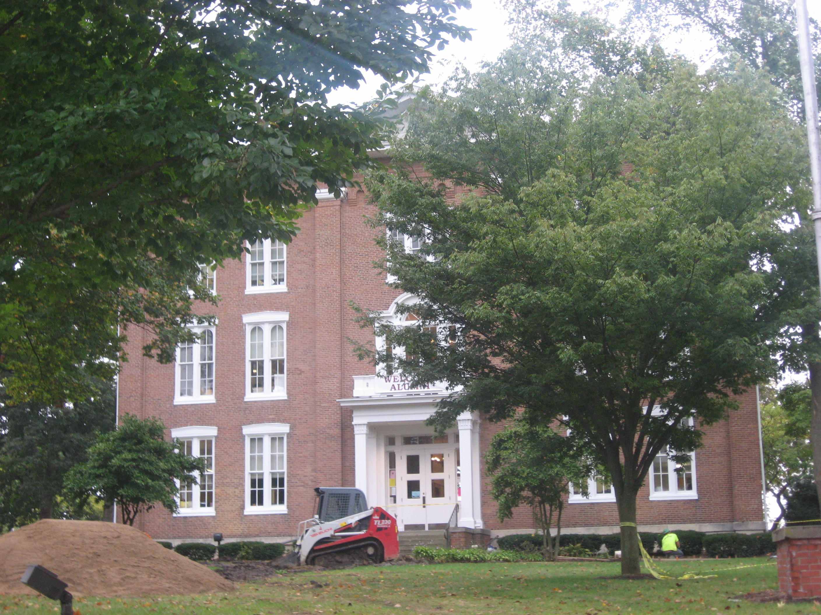 Front of the Eureka College Administration Building, located on the campus of Eureka College in Eureka, Illinois, United States. Built in 1858, it is listed on the National Register of Historic Places, and it is also part of a Register-listed historic district, the Eureka College Campus Historic District.